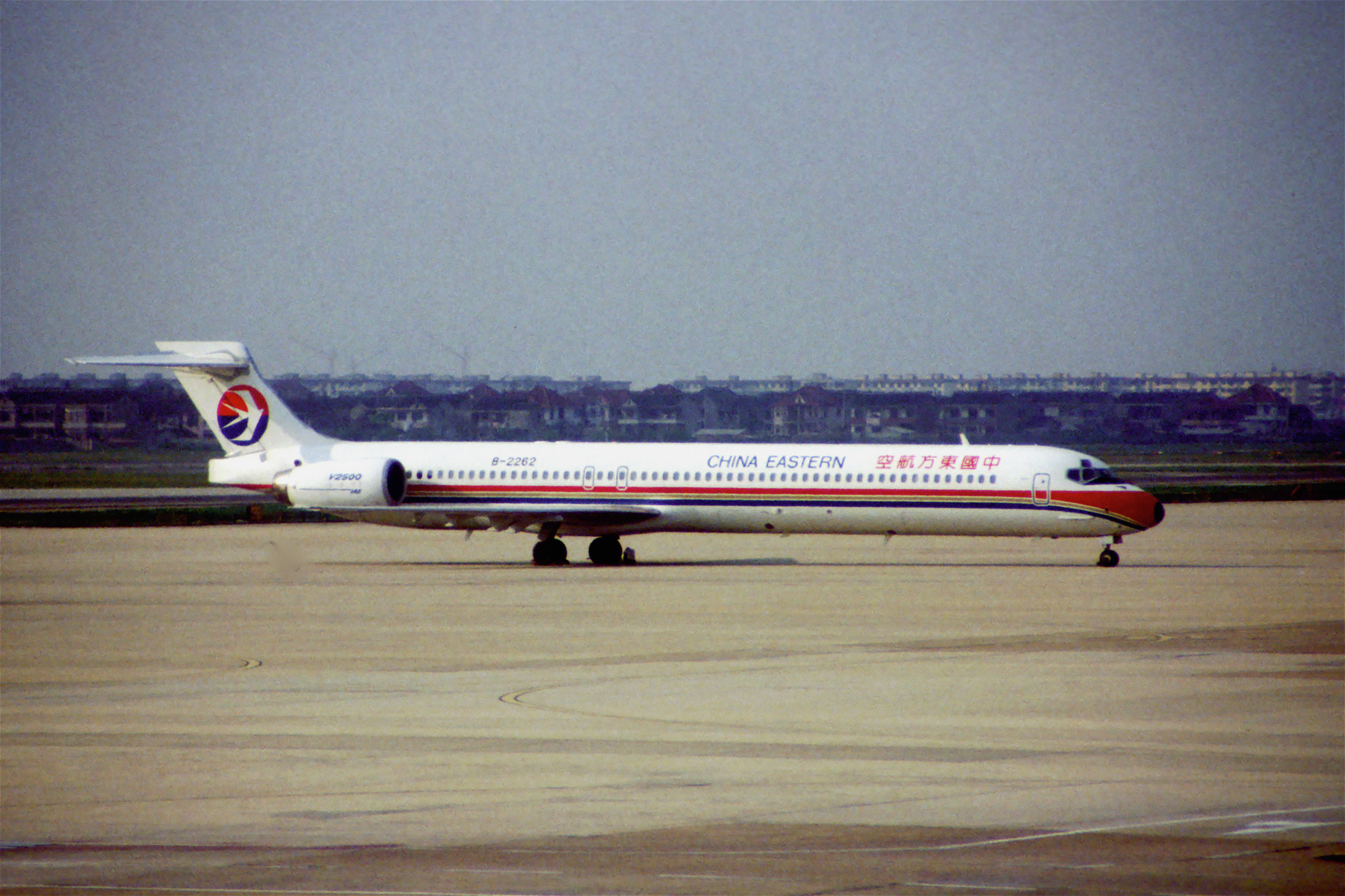 China Eastern Airlines MD-90-30; B-2262, October 1998/ BSS